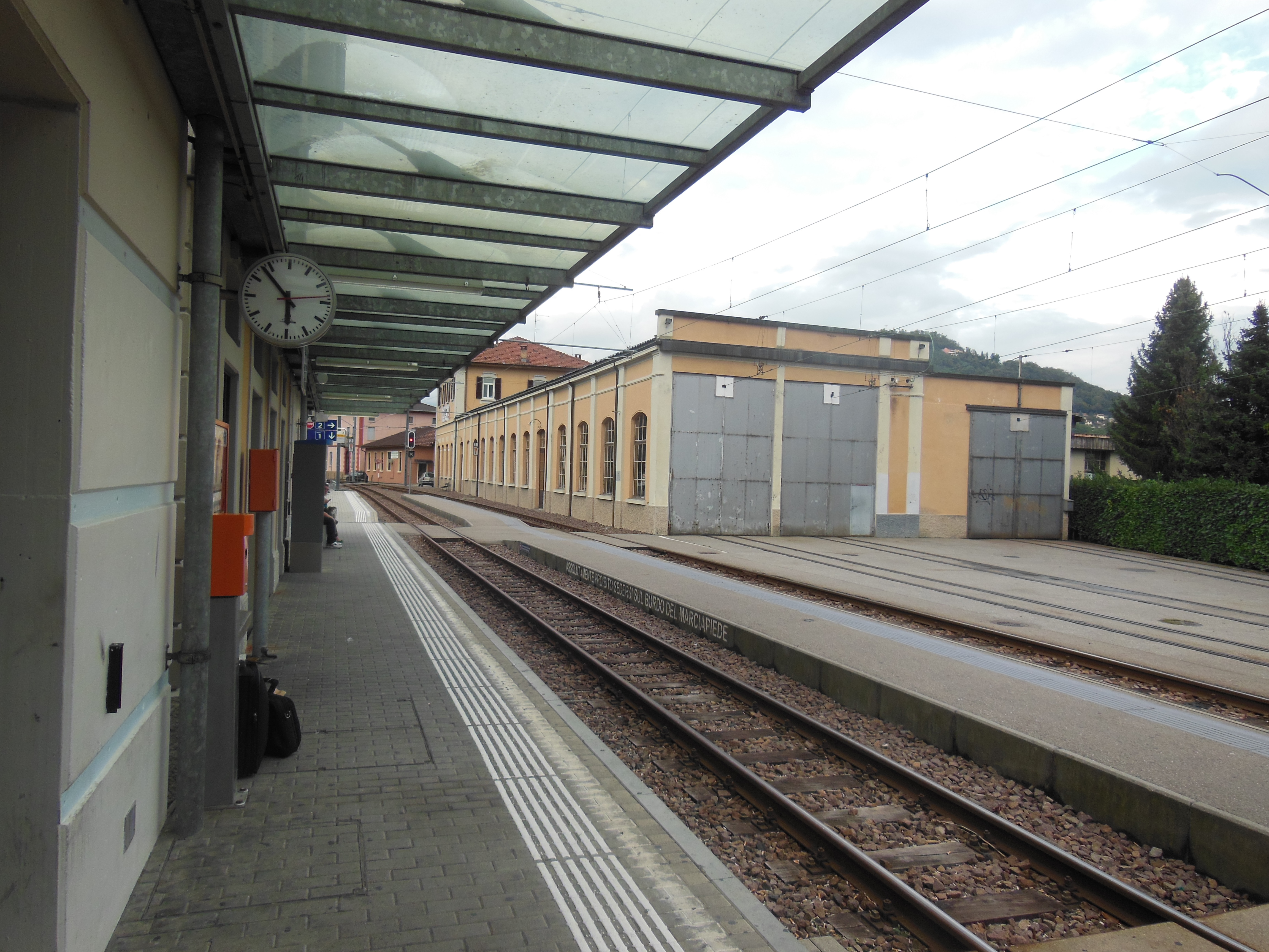 Agno railway station platform looking north, with station building to left and depot entrance to right. For more information, see the wikipedia article Agno railway station.